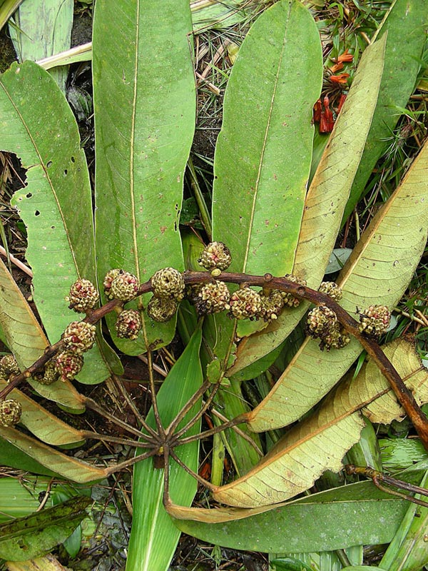 A member of the Araliaceae family, confined to the mountains of southern Ecuador. Photo from border with Peru.